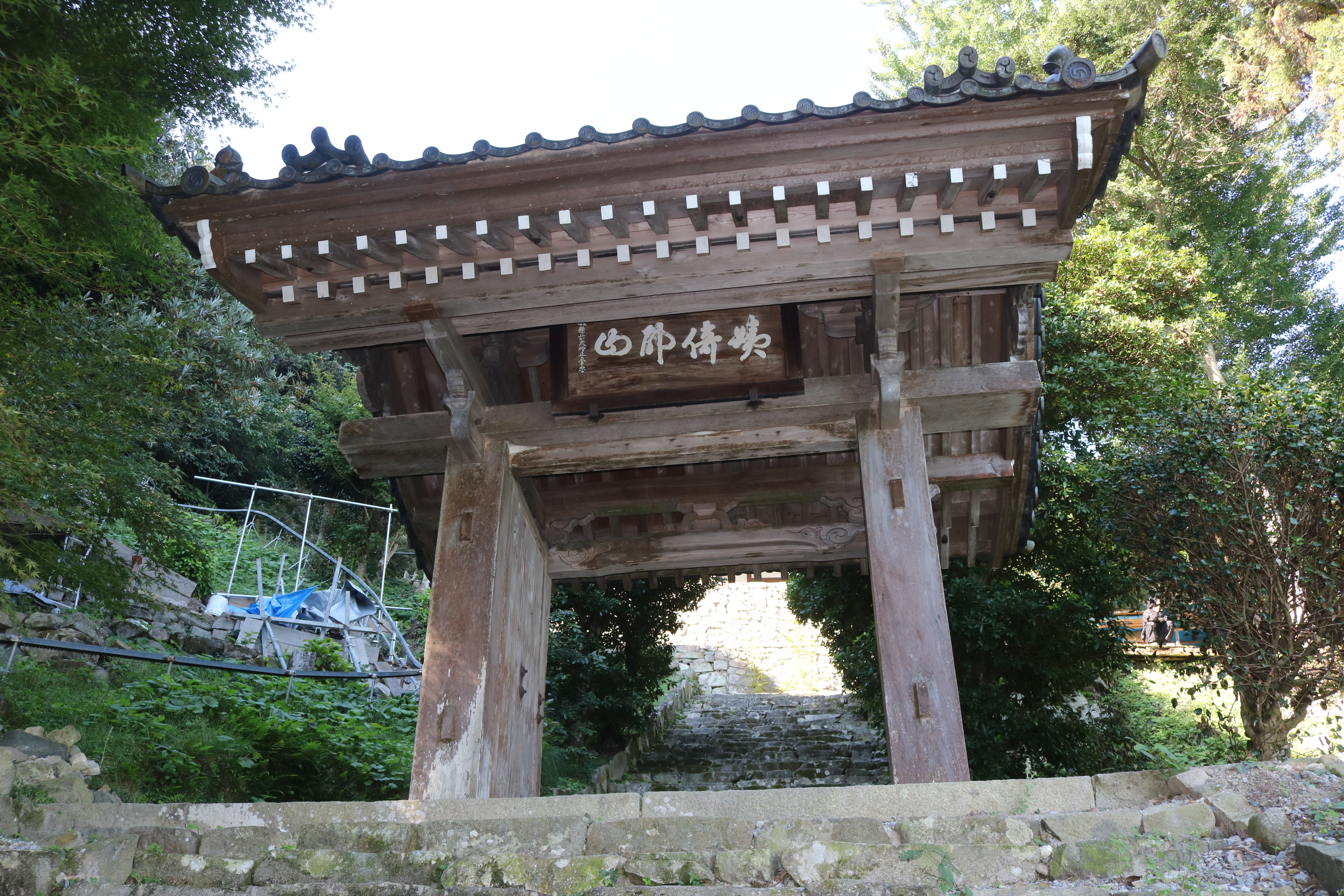 Sanmon of Isaki-ji, buddhist temple of Tiantai, in Ōmihachiman, Shiga prefecture, Japan.